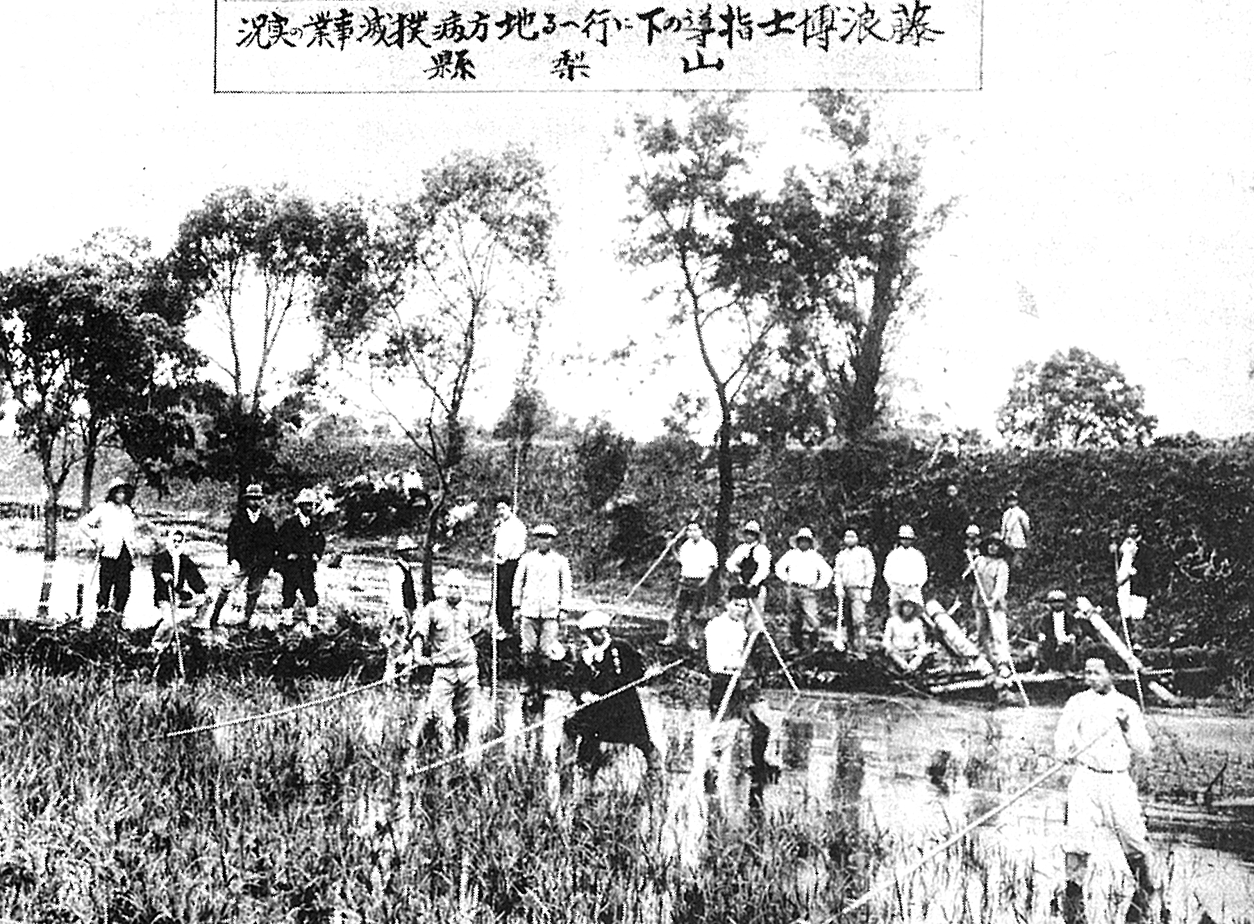 Under the guidance of Dr. Fujinami, spraying quicklime in Kofu Basin. Circa 1924